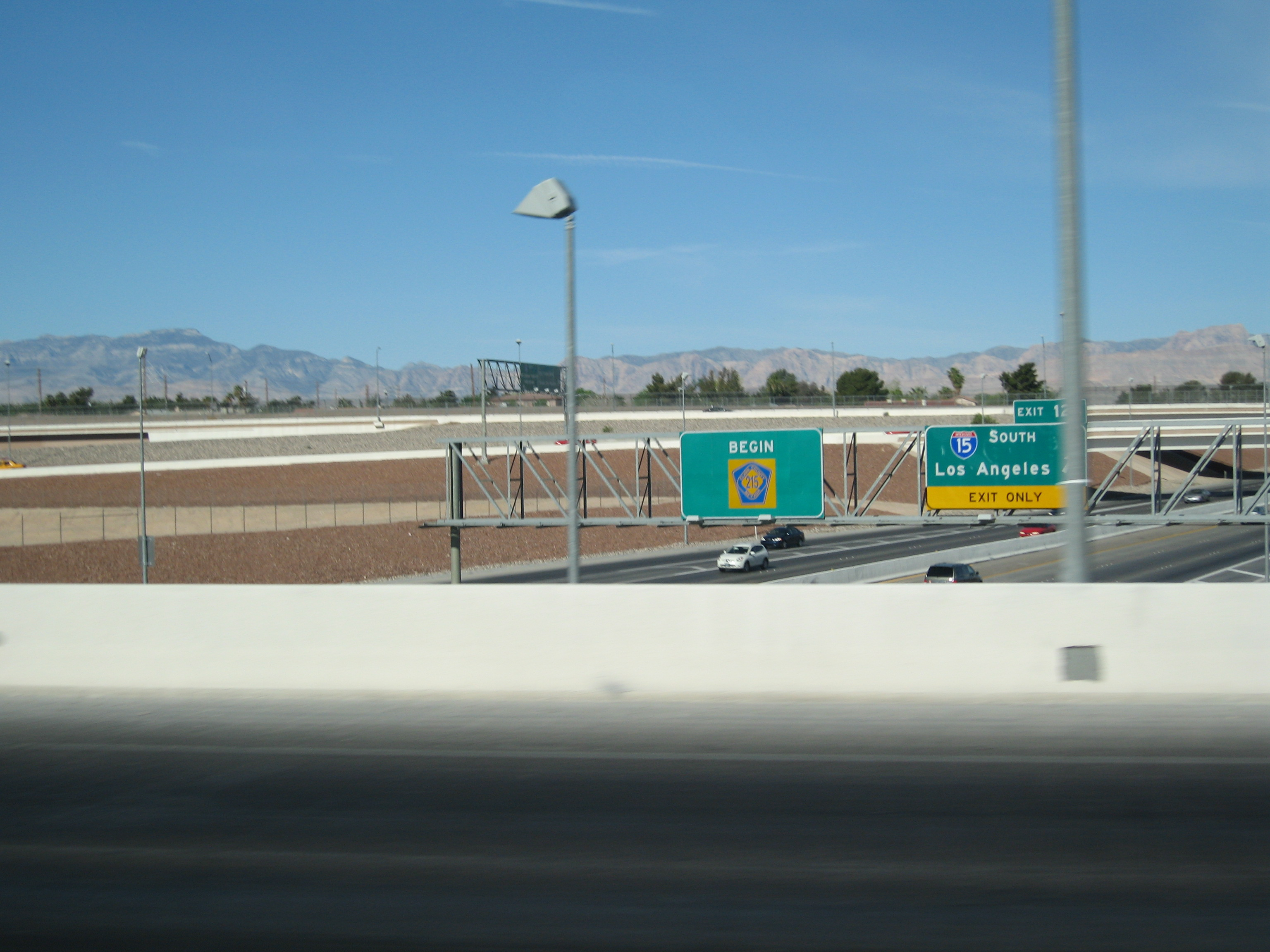 Freeway sign indicating the beginning of Clark County Route 215 on the Las Vegas Beltway, as viewed from the I-15 overpass.